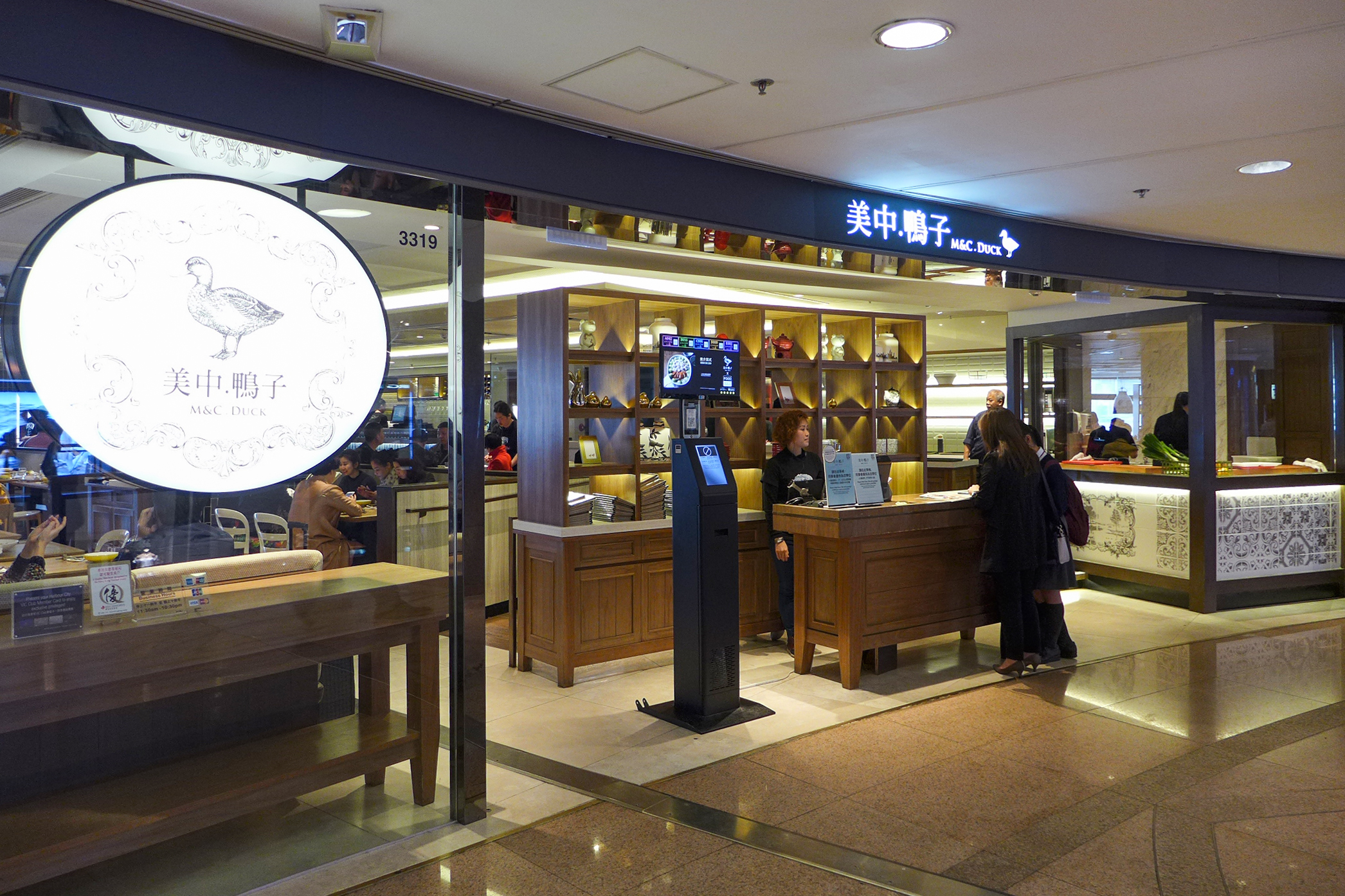 M&C Duck in Gateway, Harbour City